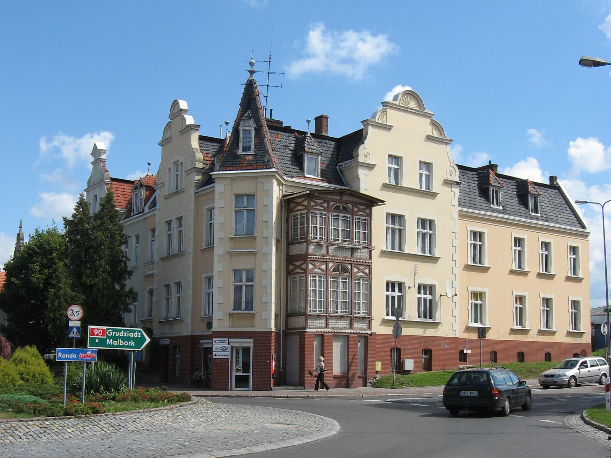 Kwidzyn, houses at corner of Kościuszki and Mostowa Str.